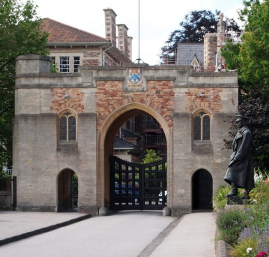 Clifton College. The college's memorial arch commemorating the teachers and pupils who died during the two World Wars as seen from "The Quad". Beyond the gates lies College Road and on the opposite side of the road is Dakyn's House. This used to be one of the college's residential houses for boarders but now houses non-boarding facilities for two boys' "houses". (H.G. Dakyns, a master and a Greek specialist was also a tutor for Lord Alfred Tennyson's children once).